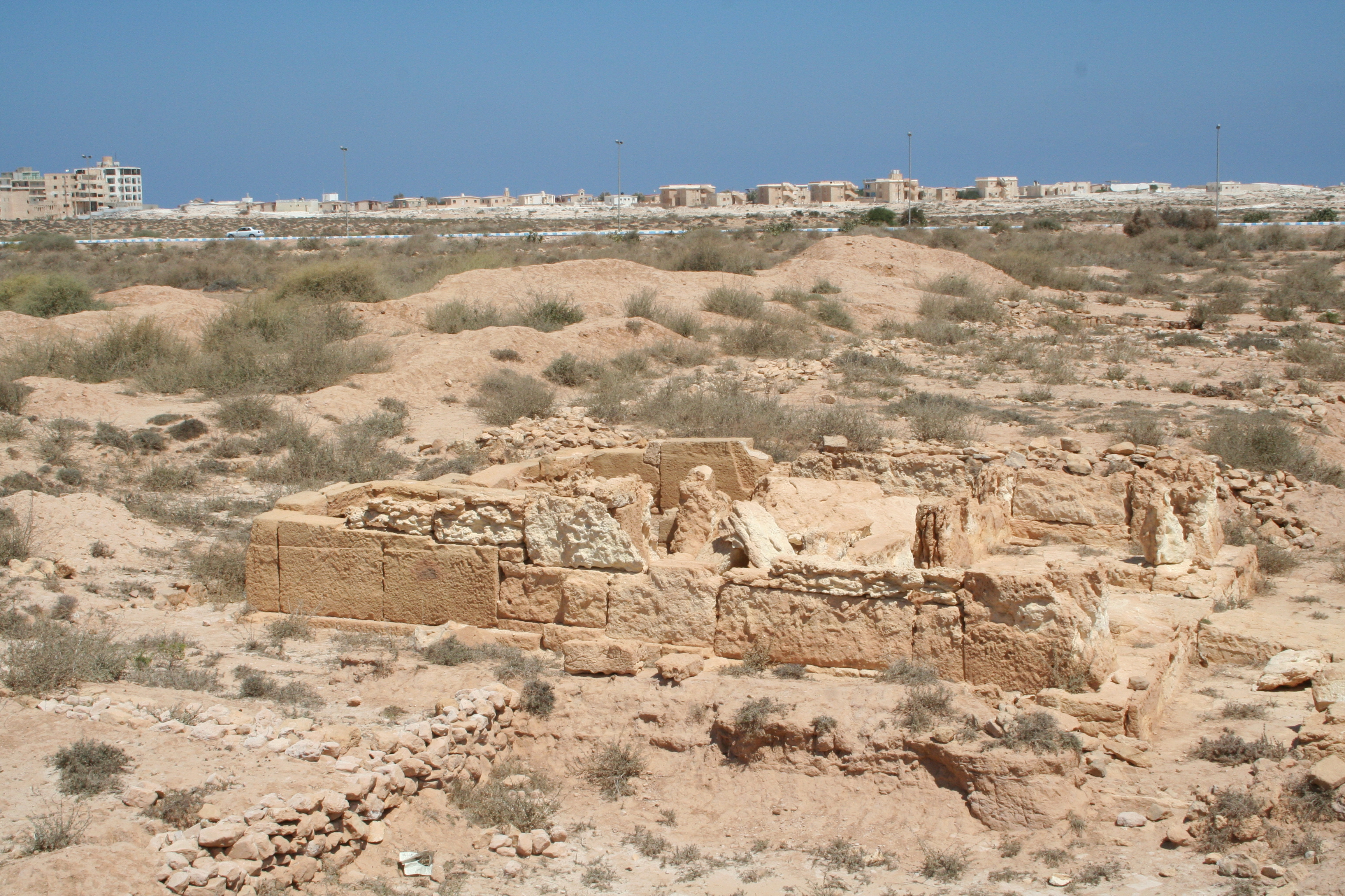 Ramesside fortress at Zawiyet Umm el-Rakham